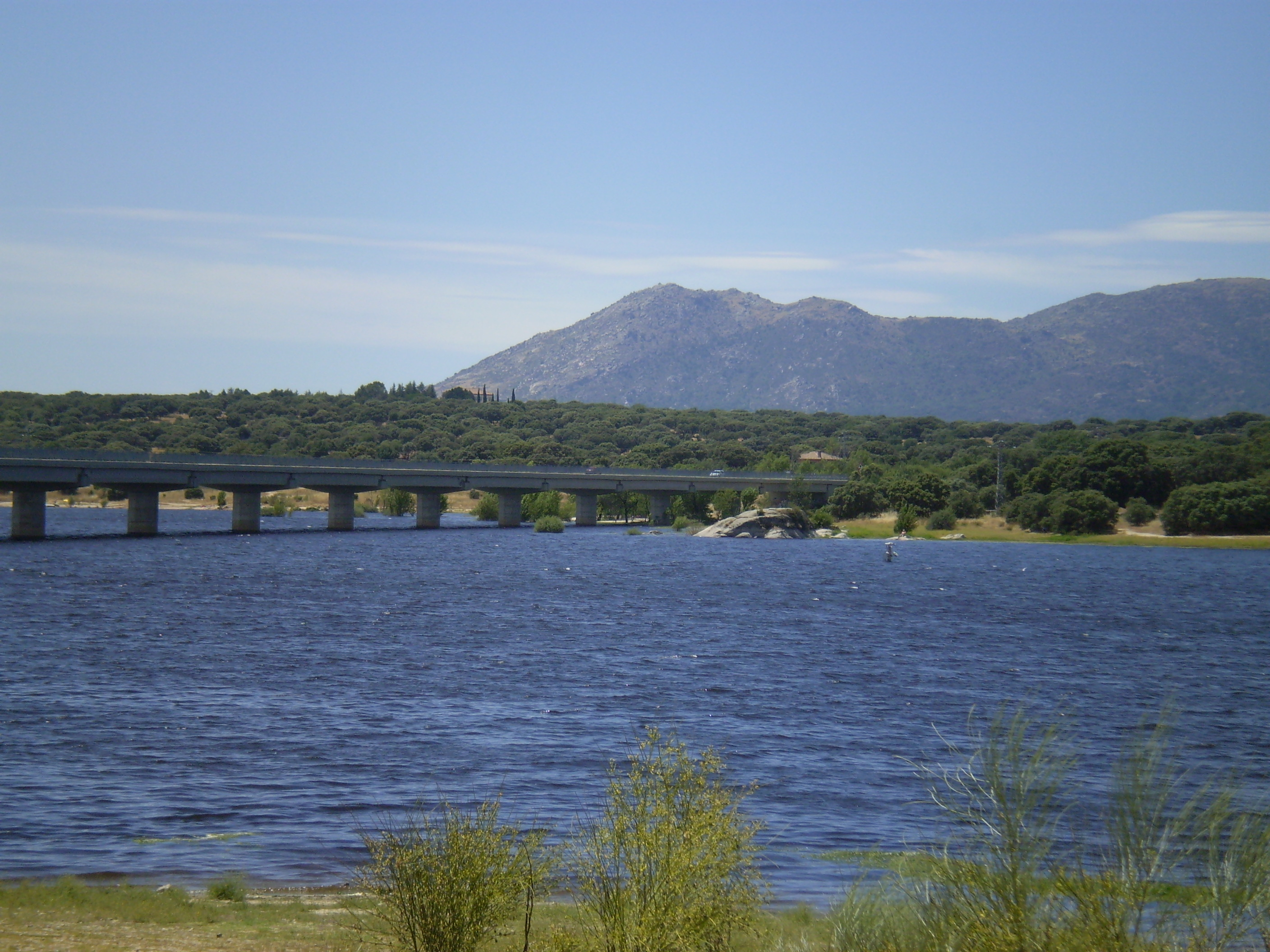 Bridge over Valmayor Reservoir. Community of Madrid, Spain